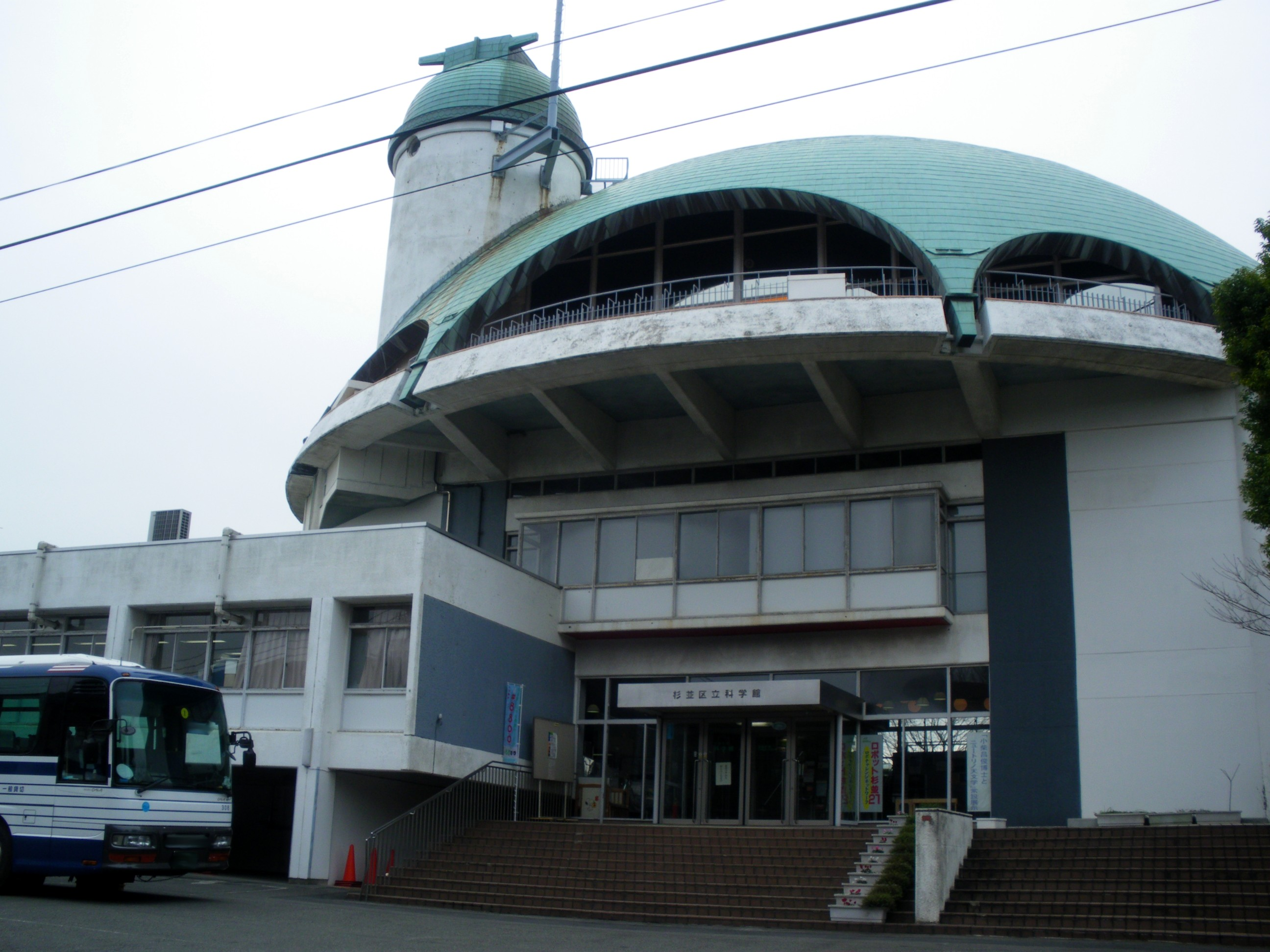 A photo of Suginami_Science_Center(Museum）,Shimizu,Suginami-ku,Tokyo,Japan.